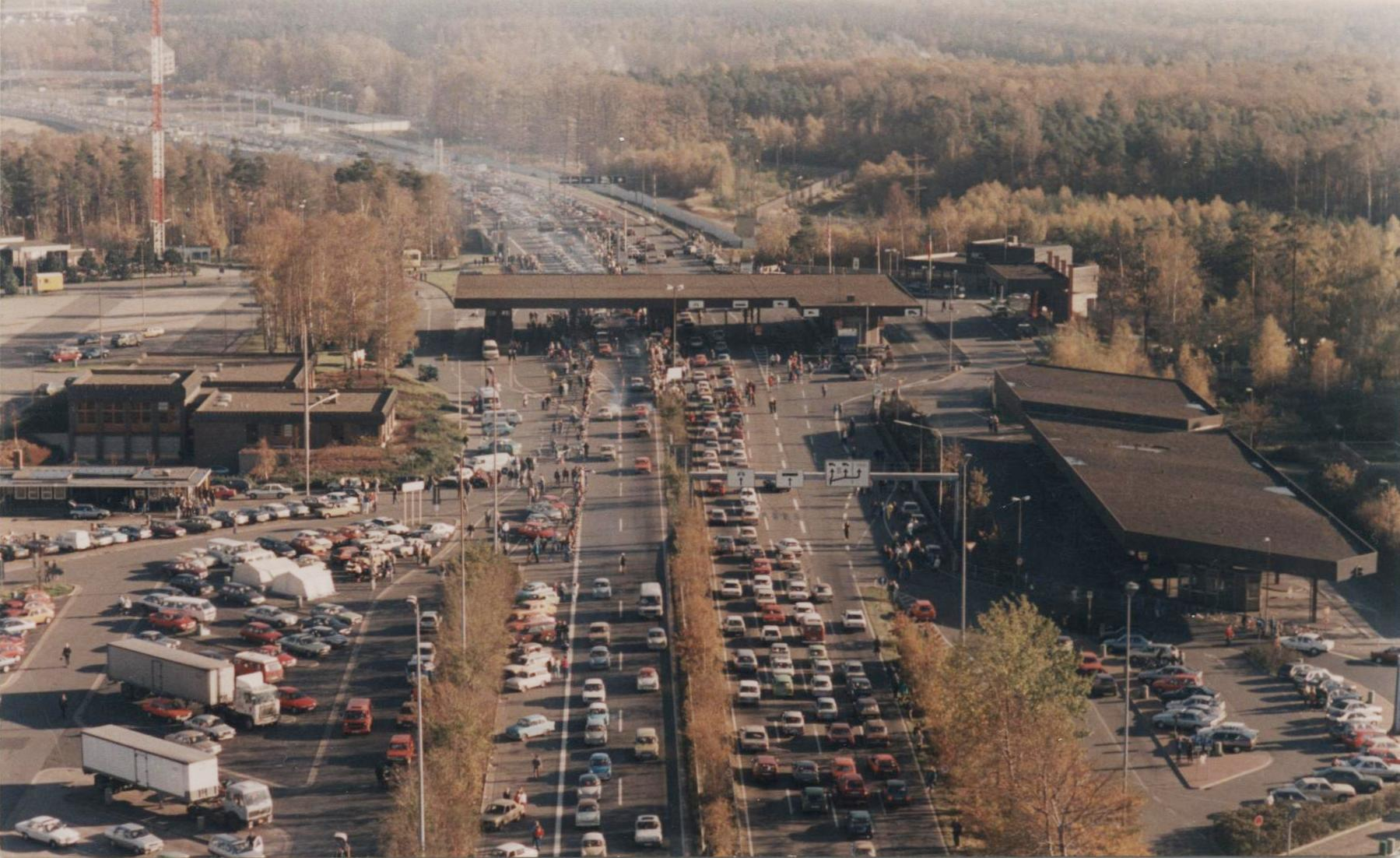 Checkpoint Helmstedt after the border opening in November 1989